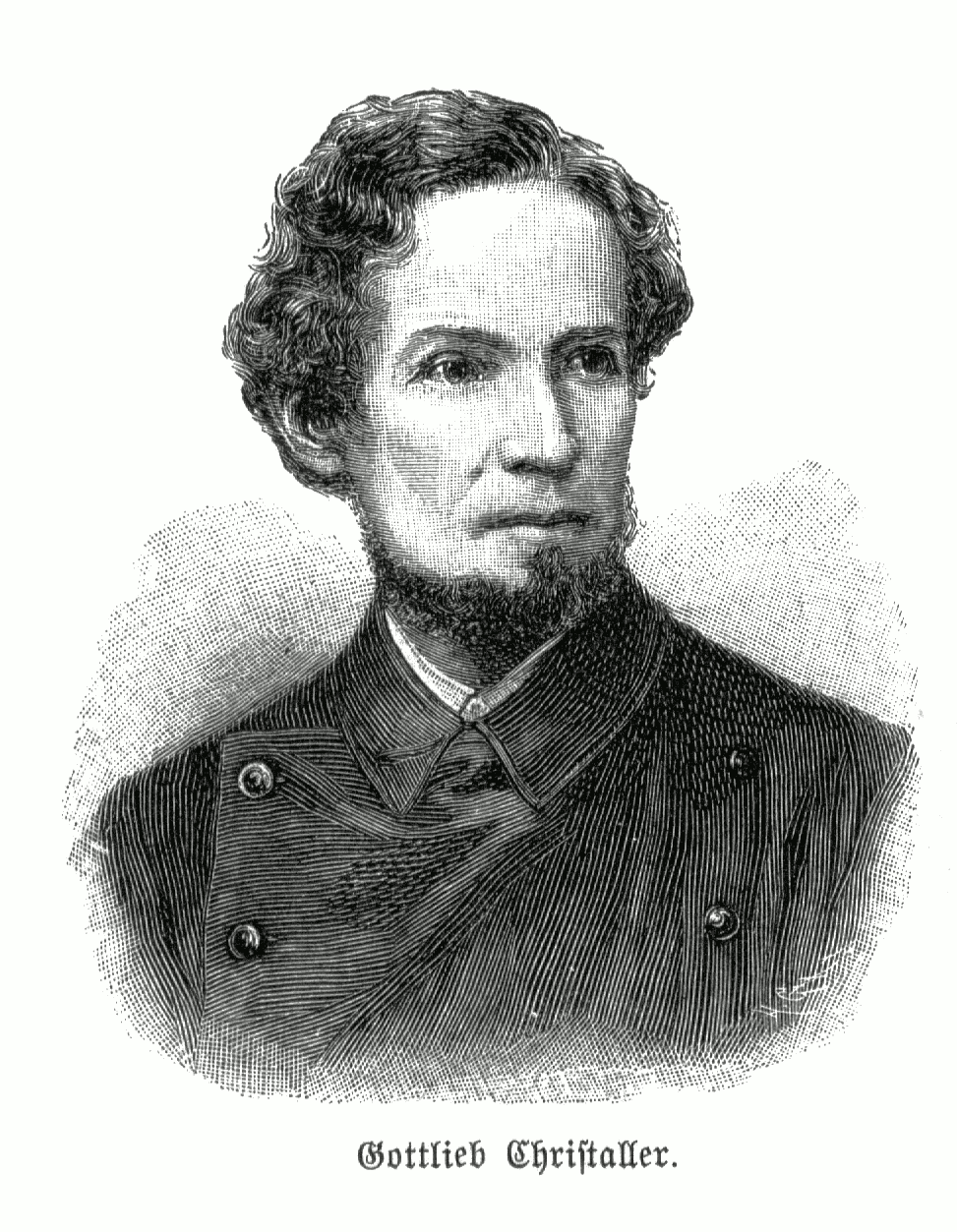 It shows Johann Gottlieb Christaller (1827-1895); Woodcut